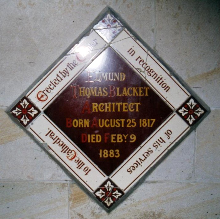 Sydney, St. Andrew's Anglican Cathedral, enamelled memorial panel made in shape of a hatchment, for Edmund Blacket, architect of the cathedral, whose ashes are buried nearby